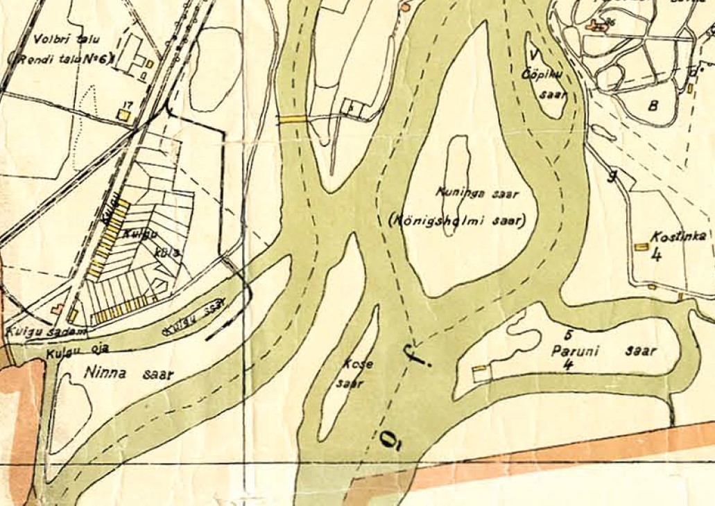 Kuningasaar and other islands at River Narva from old Narva map (1929)